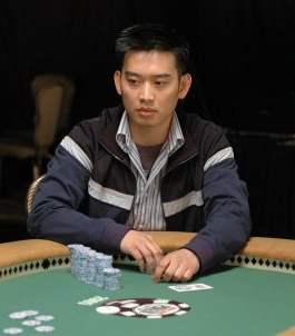 Quinn Do at the 2005 World Series of Poker.(cropped)